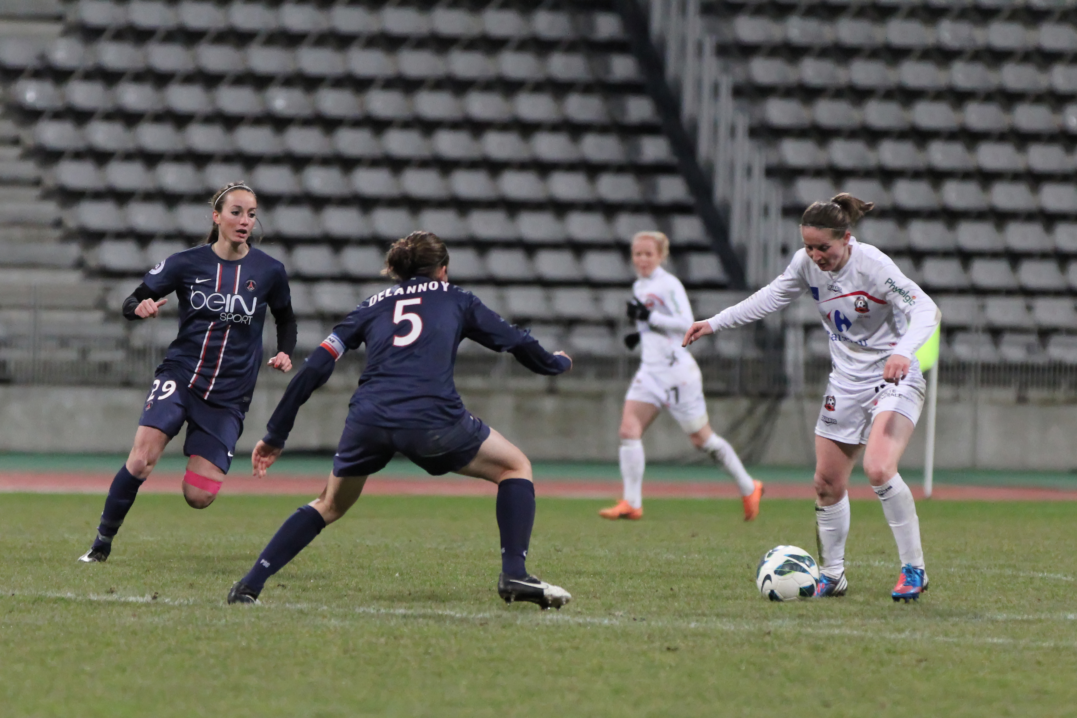 PSG-Juvisy, december 9th, 2012.